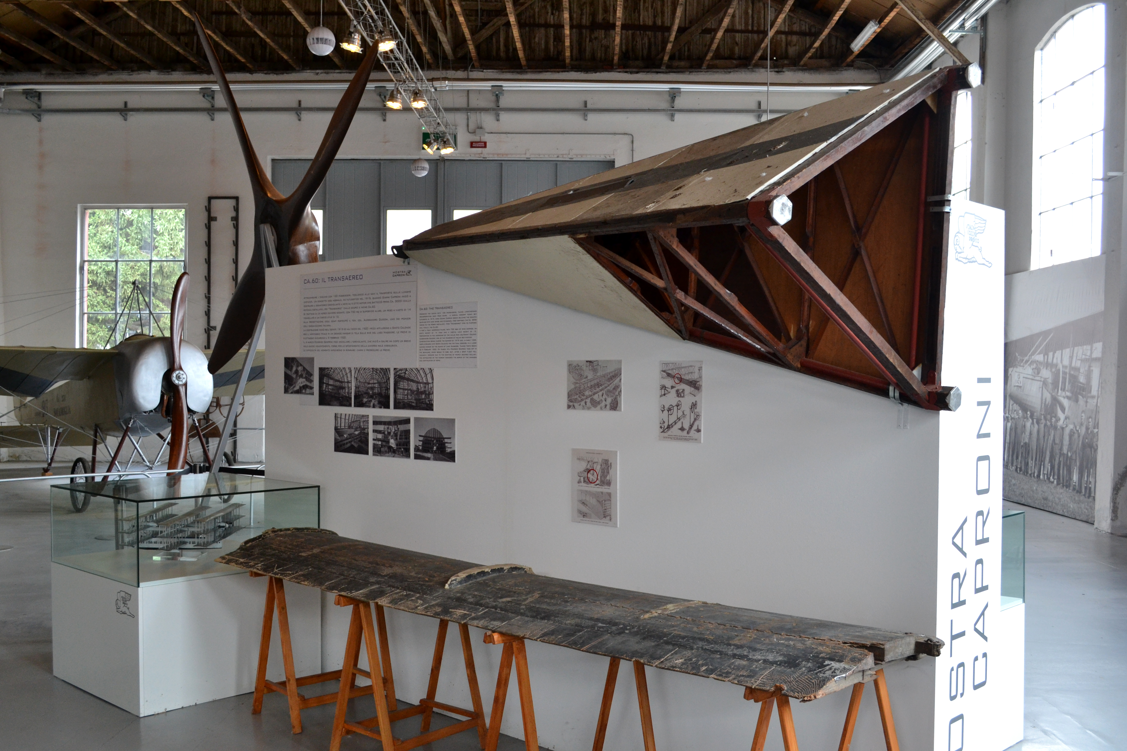 Among the few surviving parts of the Caproni Ca.60 flying boat prototype are a section of one of the two triangular truss-booms that connected the three wing sets, as well as one of the hydrofoils that connected the main hull and the outriggers that stabilized the seaplane. These fragments are on display at the Volandia aviation museum, in the Province of Varese, Italy, hosted in the former industrial premises of the Caproni company.